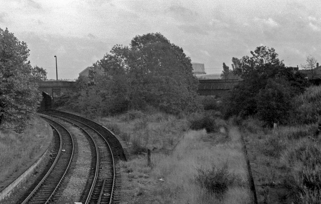 Overgrown and derelict remains of Priestfield Station. 1978. Overgrown and derelict remains of Priestfield Station. 1978. The former GWR tracks, still in situ at this time, curved away towards Bilston Central and Birmingham whilst those formerly serving the West Midland Line platform's(closed 1962) once led in the direction of Bilston West and, eventually, Stourbridge Junction. Note the ex GWR ATC ramp still in place on the Wolverhampton line at the bottom of the picture. The former GWR line had closed to passenger traffic in 1972 and was later re-opened as the Midland Metro, Wolverhampton (St George's) to Birmingham (Snow Hill).